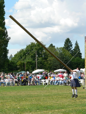 A competitor in the caber toss event at the 2005 Skagit Valley Highland Games just as he releases the caber.